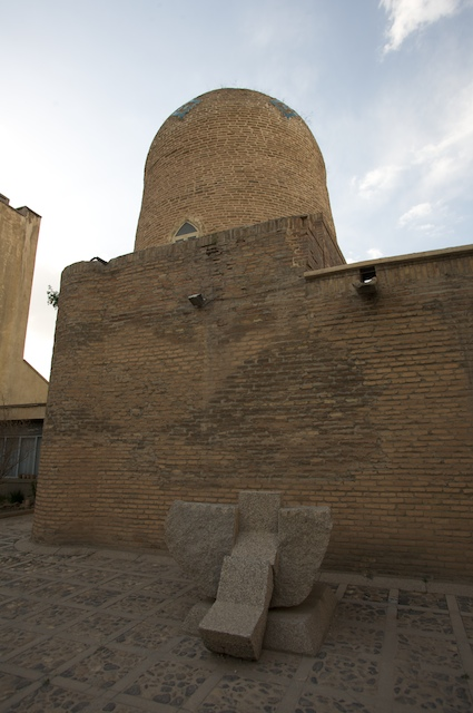 Tomb of Esther and Mordechai, Hamedan, Iran, exterior view